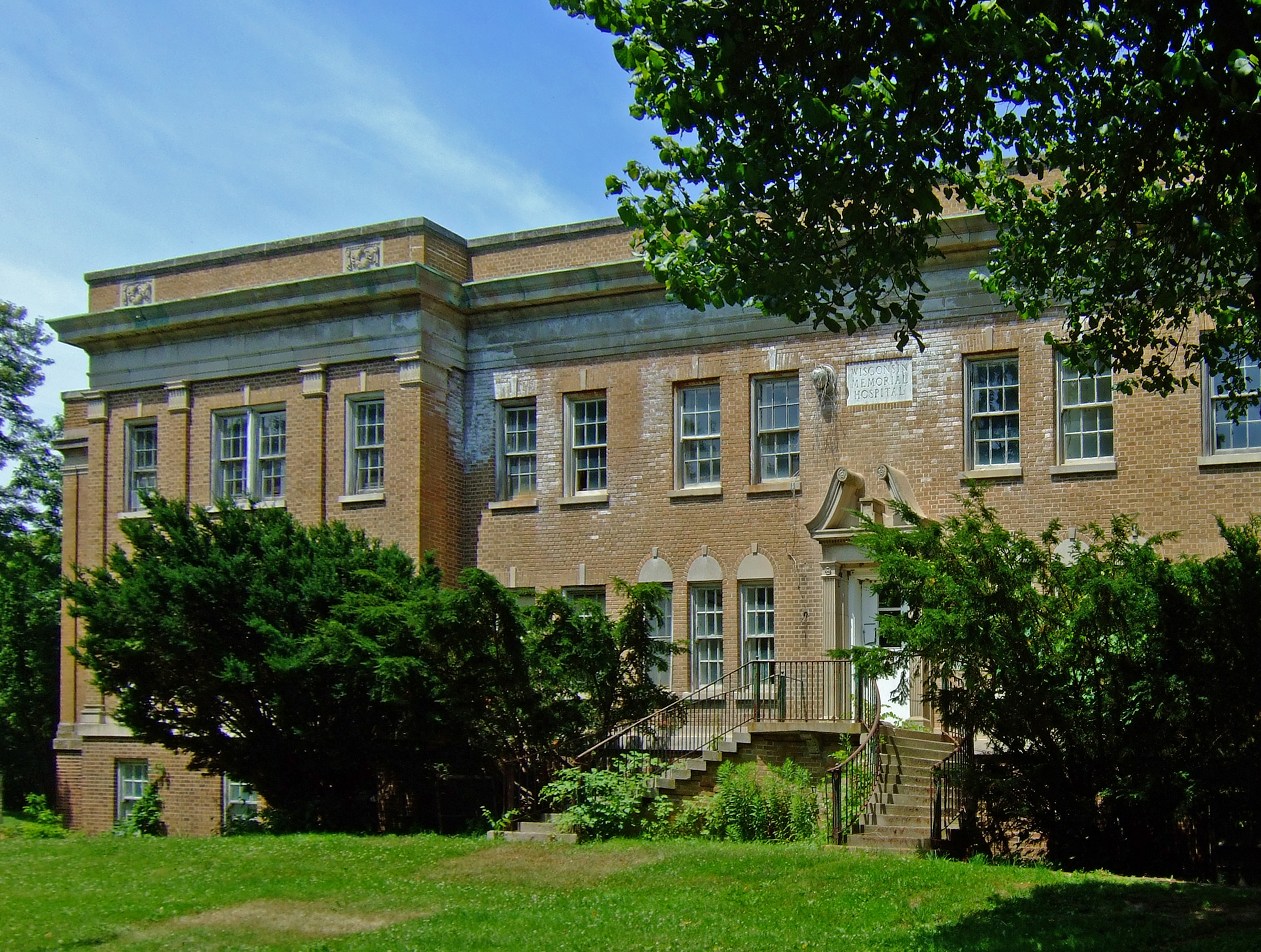 The Wisconsin Memorial Hospital is on the campus of the Mendota Mental Health Institute in Madison, Wisconsin. Built in 1922, it has been empty since about 1994. It was originally built as a memorial to Wisconsin veterans, and it last housed a veterans’ hospital.